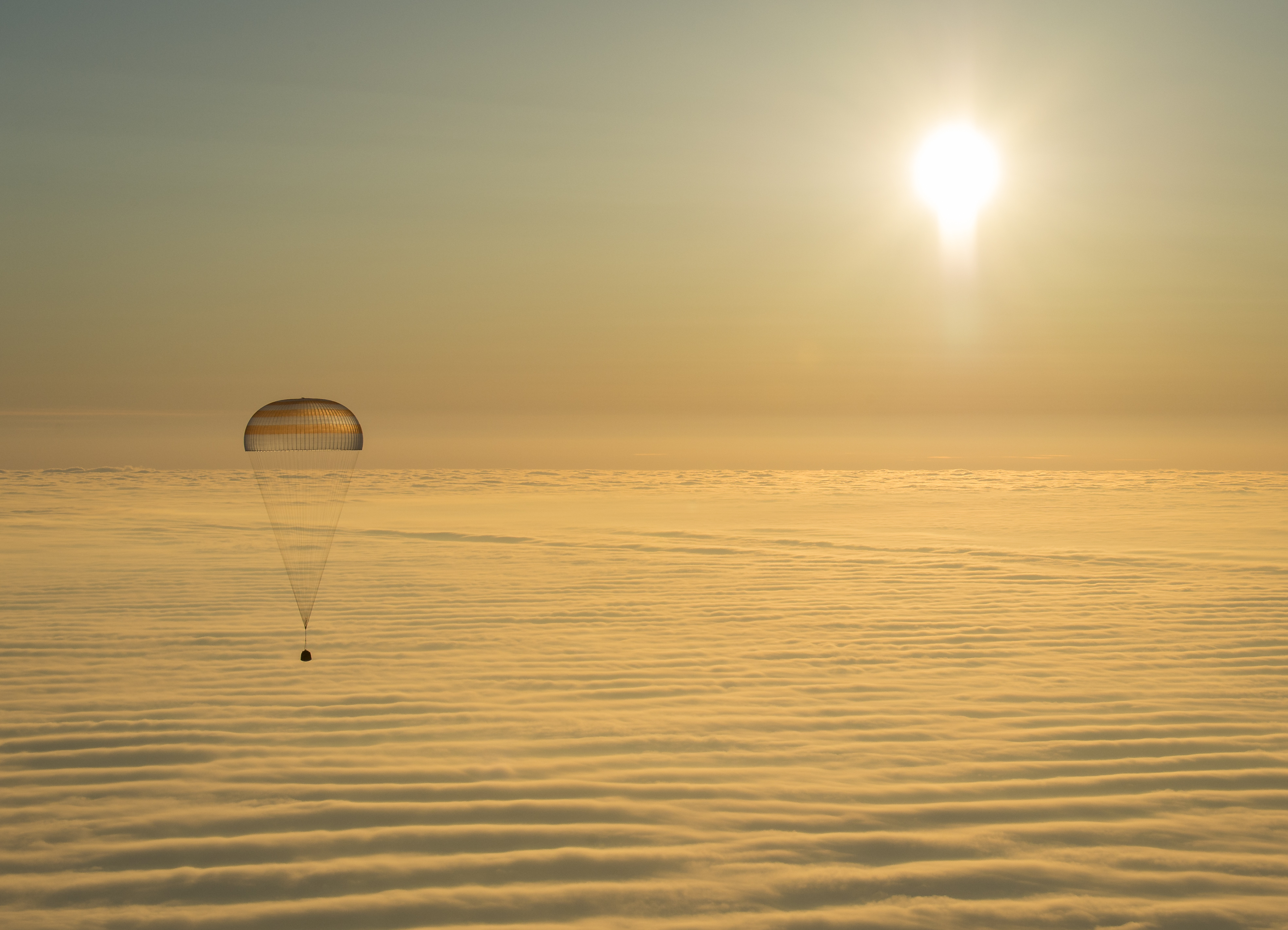 On March 12, 2015, shortly after local sunrise over central Asia, this Soyuz TMA-14M spacecraft floated over a sea of golden clouds during its descent by parachute through planet Earth's dense atmosphere. On board were Expedition 42 commander Barry Wilmore of NASA and Alexander Samokutyaev and Elena Serova of the Russian Federal Space Agency (Roscosmos). Touch down was at approximately 10:07 p.m. EDT (8:07 a.m. March 12, Kazakh time) southeast of Zhezkazgan, Kazakhstan. The three were returning from low Earth orbit, after almost six months on the International Space Station as members of the Expedition 41 and Expedition 42 crews.